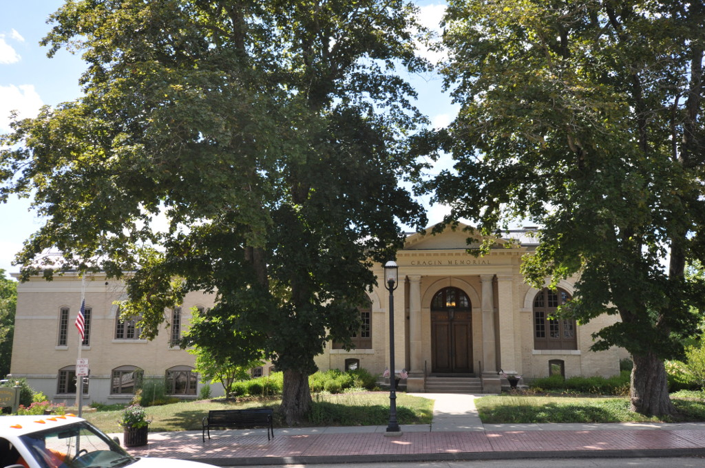 Cragin Memorial Library, Colchester Village Historic District, Colchester, Connecticut.